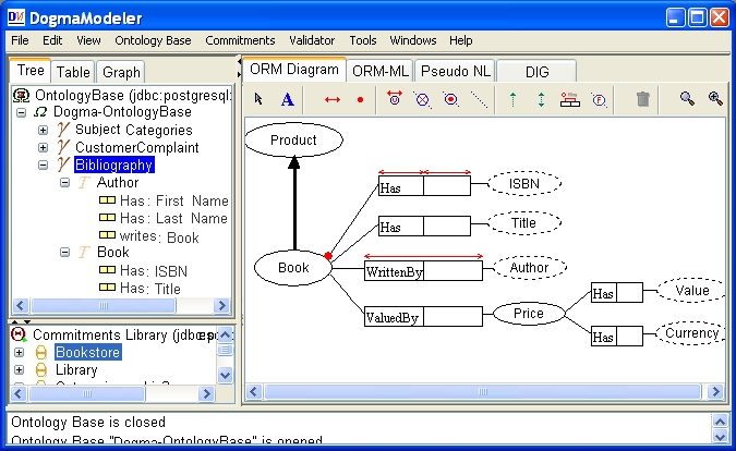 DogmaModeler protege Screenshot, see also the DogmaModeler website